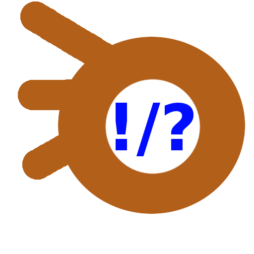 This is the icon for the Tips And Tricks template.